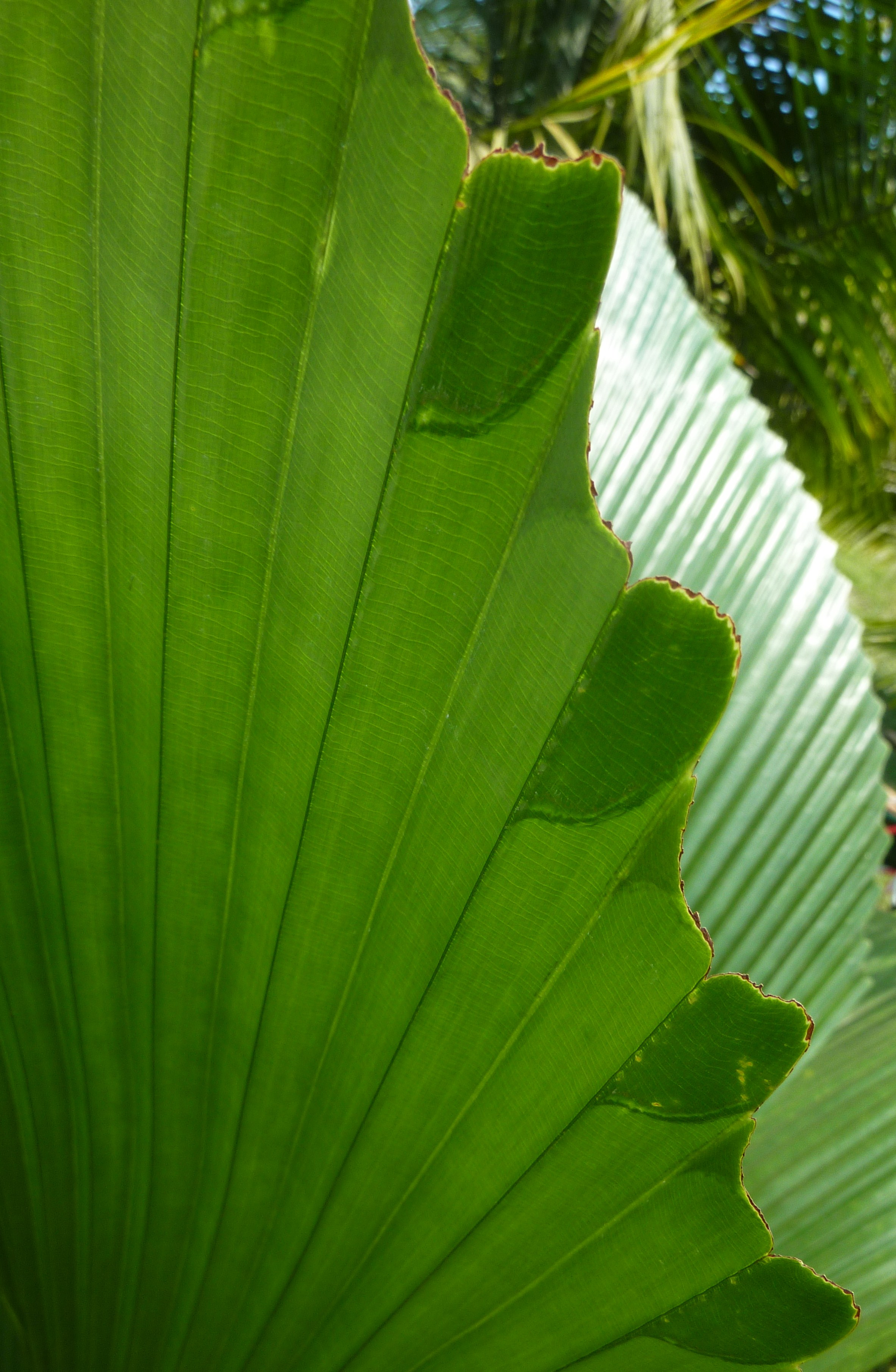 detail of Joey Palm foliage, Johannesteijsmannia altifrons.